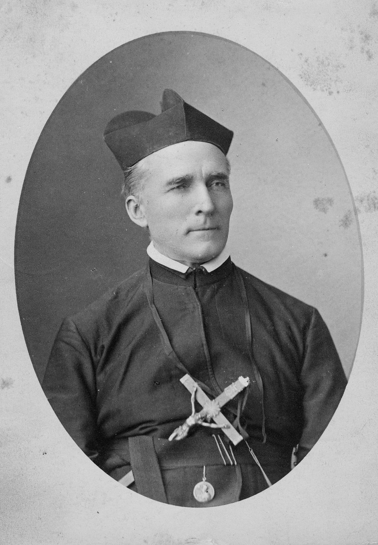 Oval portrait photograph of Bernard A. Maguire, president of Georgetown University.